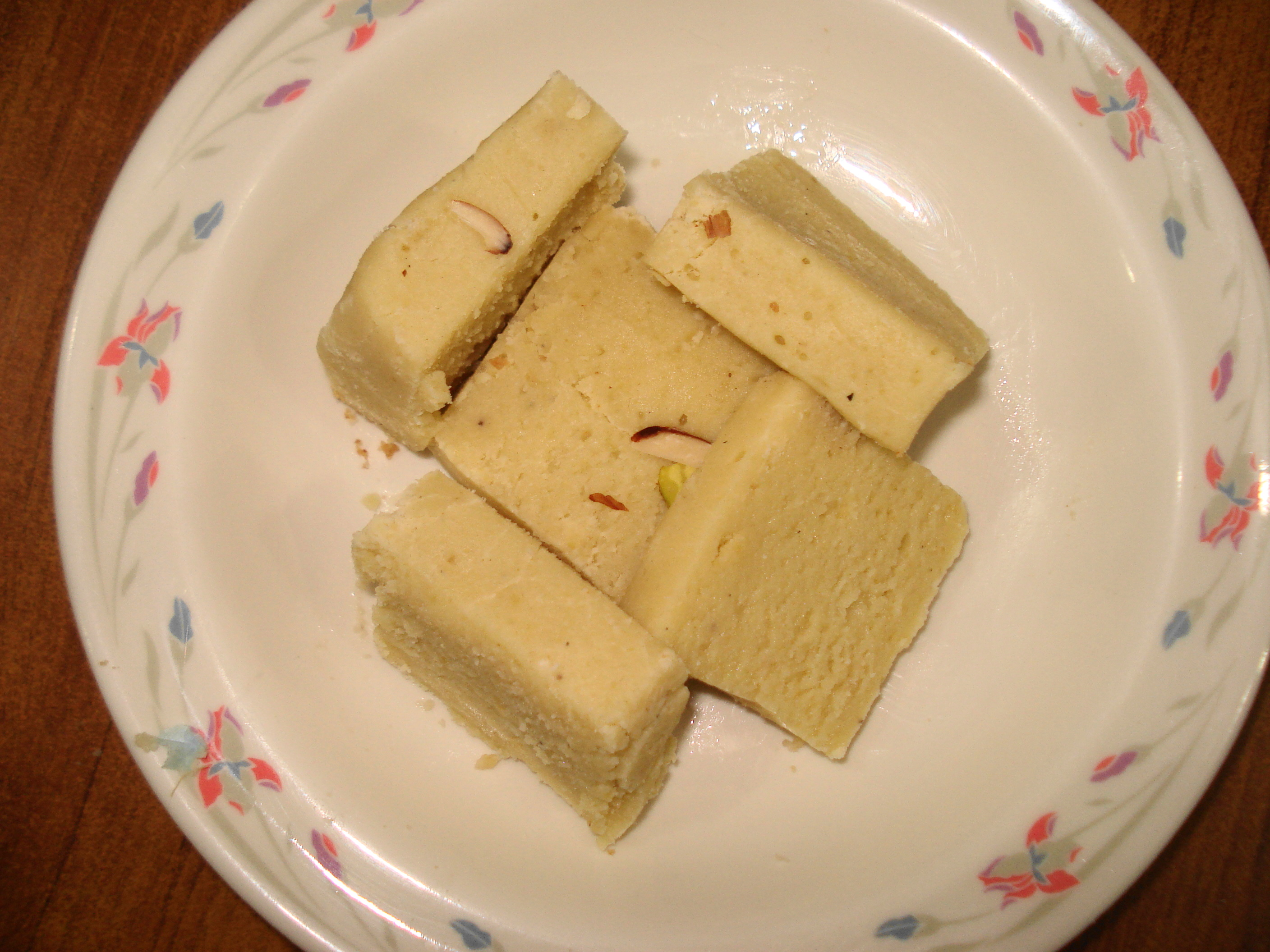 barfi sweetmeat